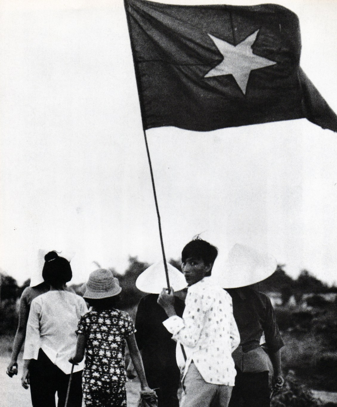 Followers of PANV in South Vietnam